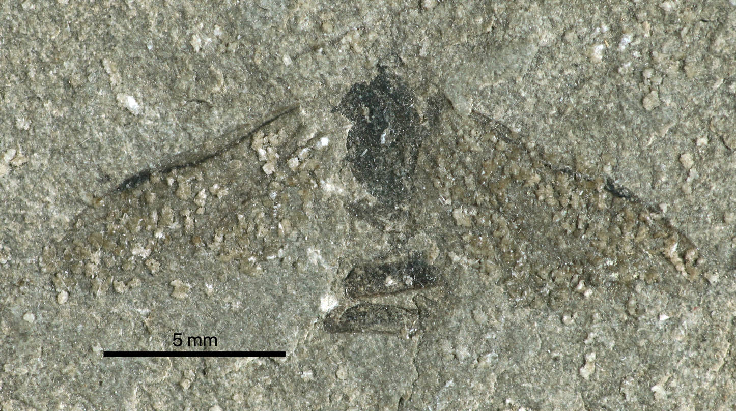 Dorsal view of the Emplastus miocenicus paratype queen, formerly identified by Oswald Heer as a specimen of Formica ungeri. Universalmuseum Joanneum Graz specimen UMJ77485. Universalmuseum Joanneum Graz, Styria, Austria. Burdigalian; Radoboj deposits; Radoboj area, Krapinsko-Zagorska, Croatia.